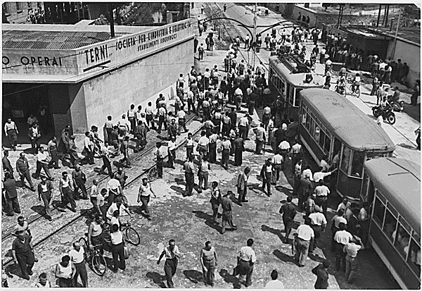 Public Domain. Suggested credit: National Archives via pingnews. Additional information from source: ARC Identifier: 541735 Local Identifier: 286-ME-9(19) Title: Terni, Italy. Photo shows steel workers streaming out of the Terni steel plant, north of Rome, ca. 1948 - ca. 1955 Large image (109841 Bytes) Creator: U.S. International Development Cooperation Agency. Agency for International Development. (10/01/1979 - ca. 1998) ( Most Recent) Department of State. International Cooperation Administration. (06/30/1955 - 11/1961) ( Predecessor) Economic Cooperation Administration. (1948 - 12/30/1951) ( Predecessor) Foreign Operations Administration. (08/01/1953 - 06/30/1955) ( Predecessor) Mutual Security Agency. (1951 - 08/01/1953) ( Predecessor) Type of Archival Materials: Photographs and other Graphic Materials Level of Description: Item from Record Group 286: Records of the Agency for International Development, 1948 - 2003 Location: Still Picture Records LICON, Special Media Archives Services Division (NWCS-S), National Archives at College Park, 8601 Adelphi Road, College Park, MD 20740-6001 PHONE: 301-837-3530, FAX: 301-837-3621, Coverage Dates: ca. 1948 - ca. 1955 Part of: Series: Photographs of Marshall Plan Activities in Europe and Africa, ca. 1948 - ca. 1989 Access Restrictions: Unrestricted Use Restrictions: Unrestricted Variant Control Number(s): NAIL Control Number: NWDNS-286-ME-9(19) Copy 1 Copy Status: Preservation-Reproduction-Reference Storage Facility: National Archives at College Park - Archives II (College Park, MD) Media Media Type: Photographic Print Index Terms Contributors to Authorship and/or Production of the Archival Materials Pietzsch, Paul, Photographer